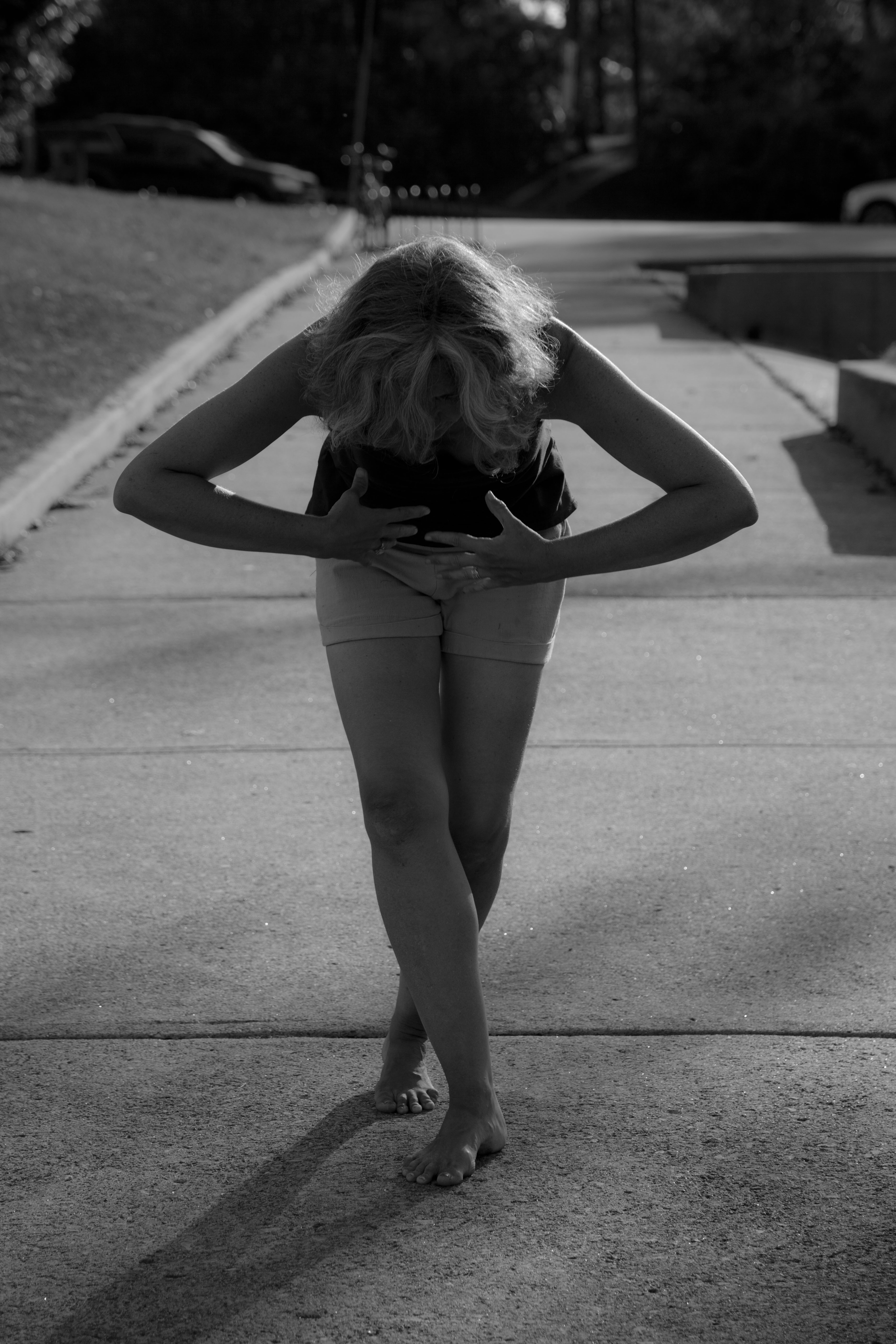 Equinox